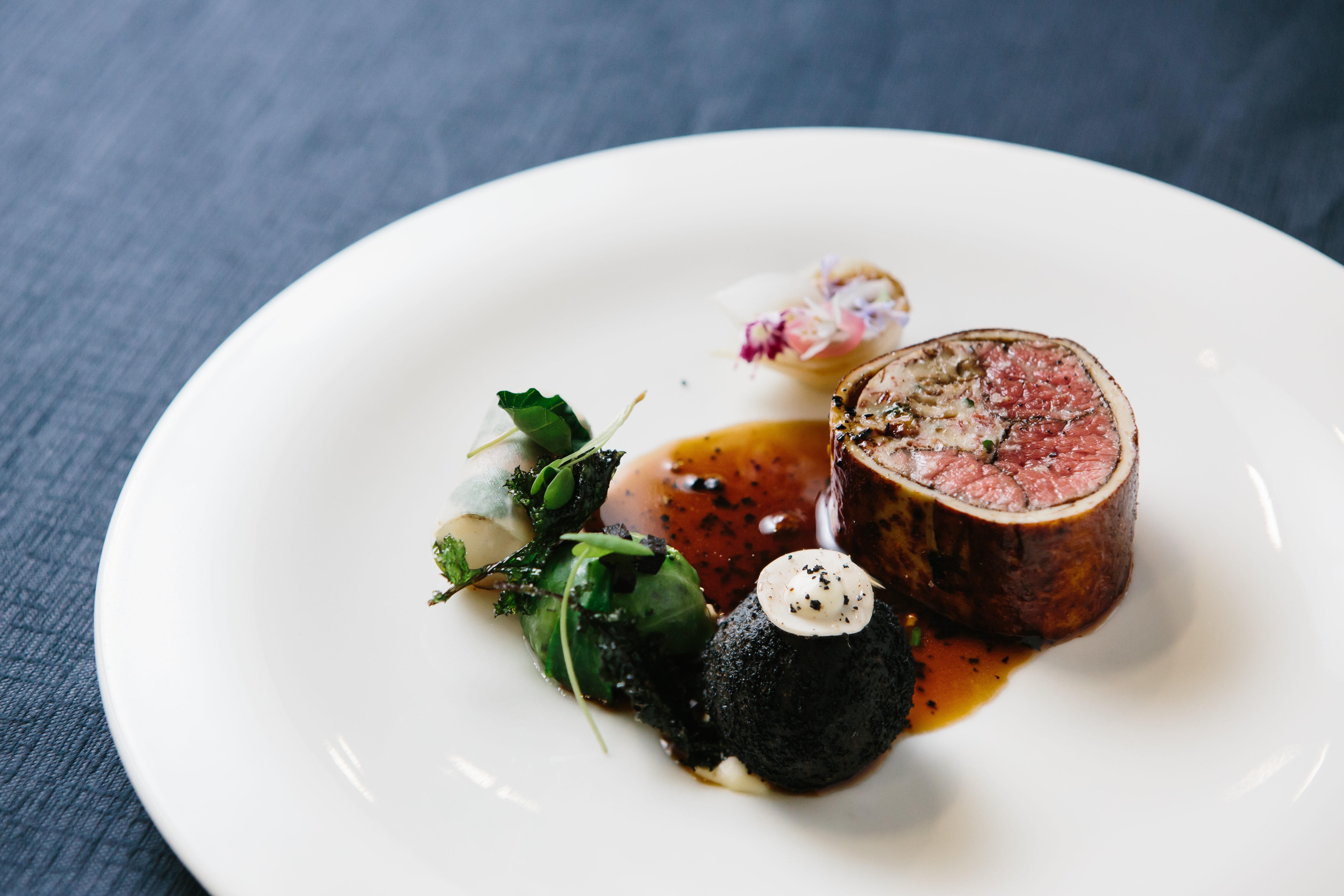 Meat dish plate by chef Eero Vottonen, winner of national Bocuse d'Or trials 2015 in Finland: - Fillet of Beef with Duck Foie gras, smoked button mushrooms and lemon thyme. - Oxtail with fermented garlic and crispy potato. - Celeriac baked in salt crust with apple and chevril. - Sour onions with juniper and rosemary. - Pointed cabbage with truffle and butter. - Sauce of Oxtail and mushrooms with tallow and spruce vinegar.